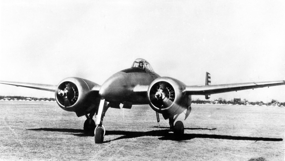 PictionID:40973166 - Title:Grumman XP-50 - Catalog:15_002797 - Filename:15_002797.tif - Image from the Charles Daniels Photo Collection album "US Army Aircraft."----PLEASE TAG this image with any information you know about it, so that we can permanently store this data with the original image file in our Digital Asset Management System.----SOURCE INSTITUTION: San Diego Air and Space Museum Archive